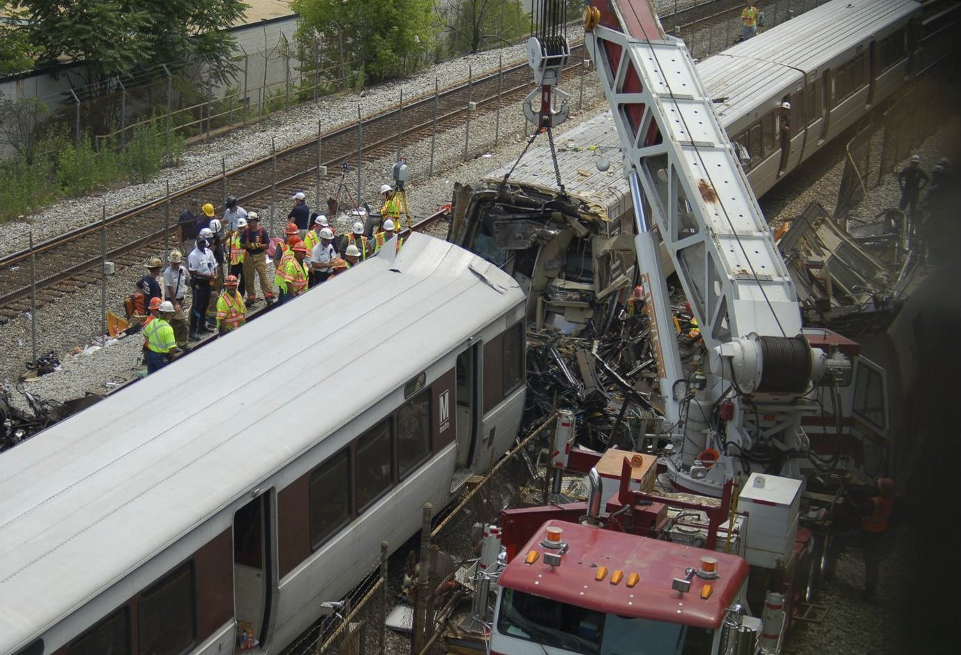 NTSB file ID 422863. Original caption, "NTSB accident photo"